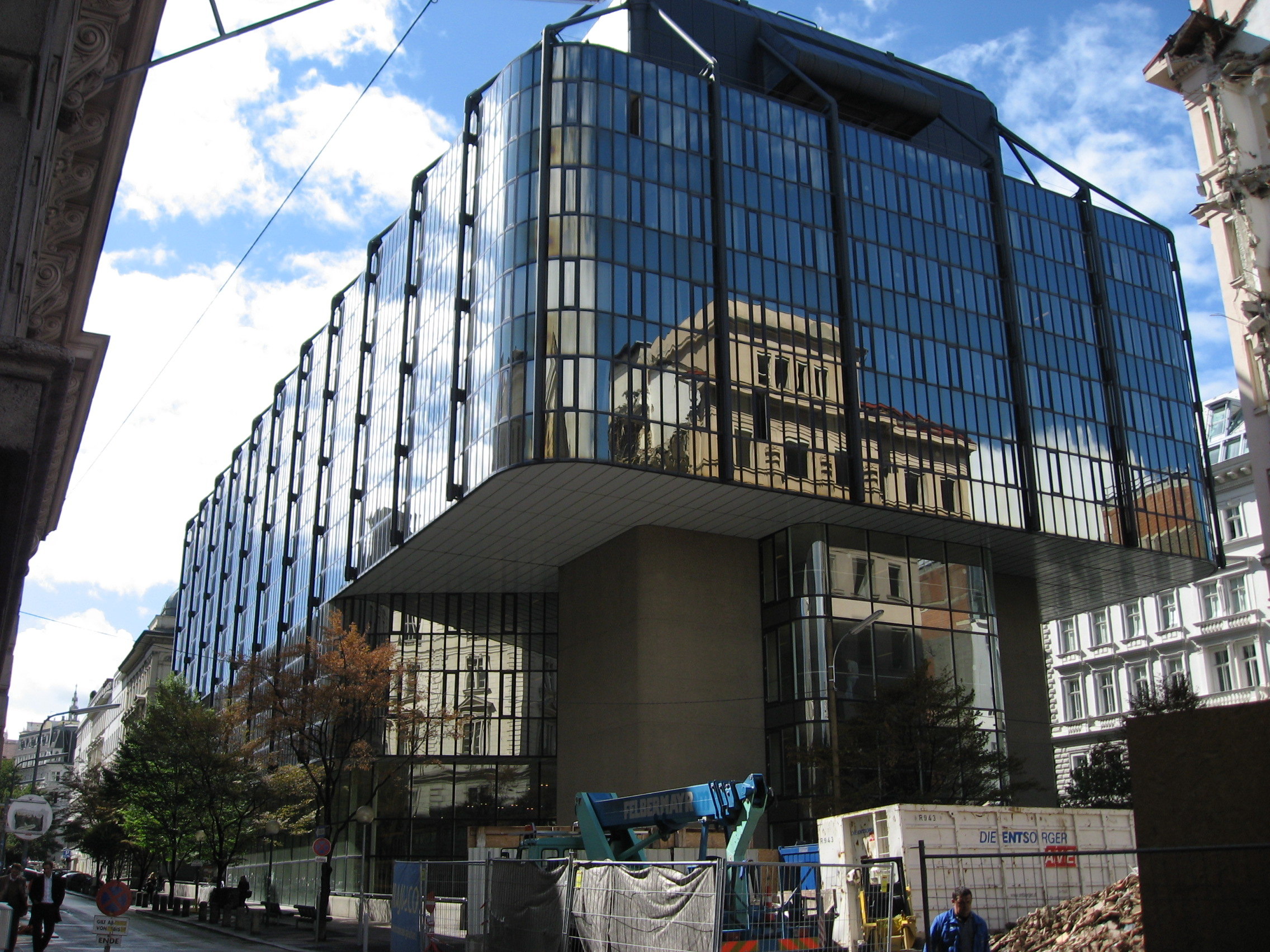 The Juridicum building in Vienna, hosting the Law department of Vienna University; photo shot in September 2007, when the neighbouring building was torn down, hence giving a broader view on the building